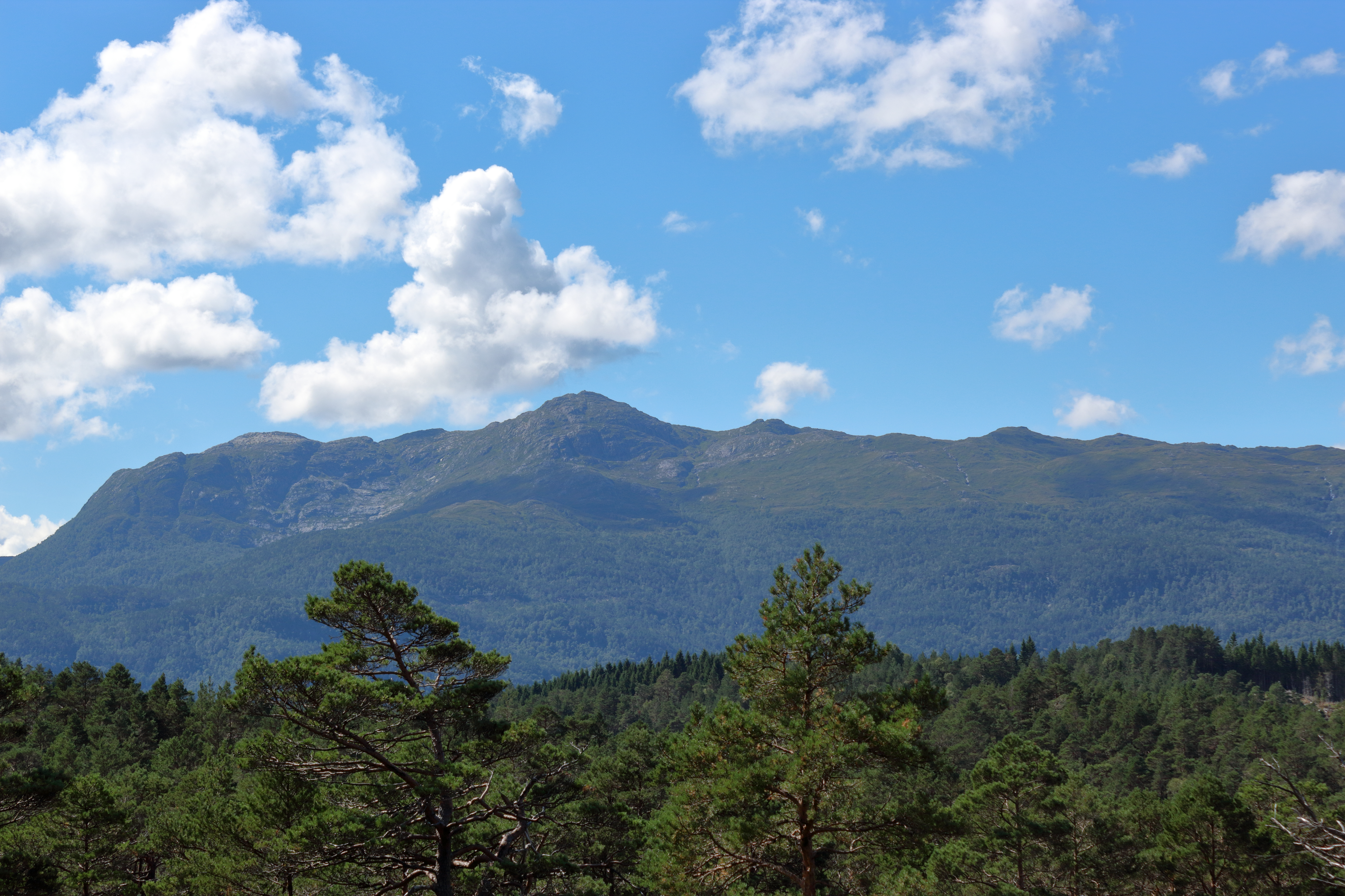 The mountain of Mehammarsåto on the island of Stord as seen from the Økland area on Tysnes, Hordaland, Norway.